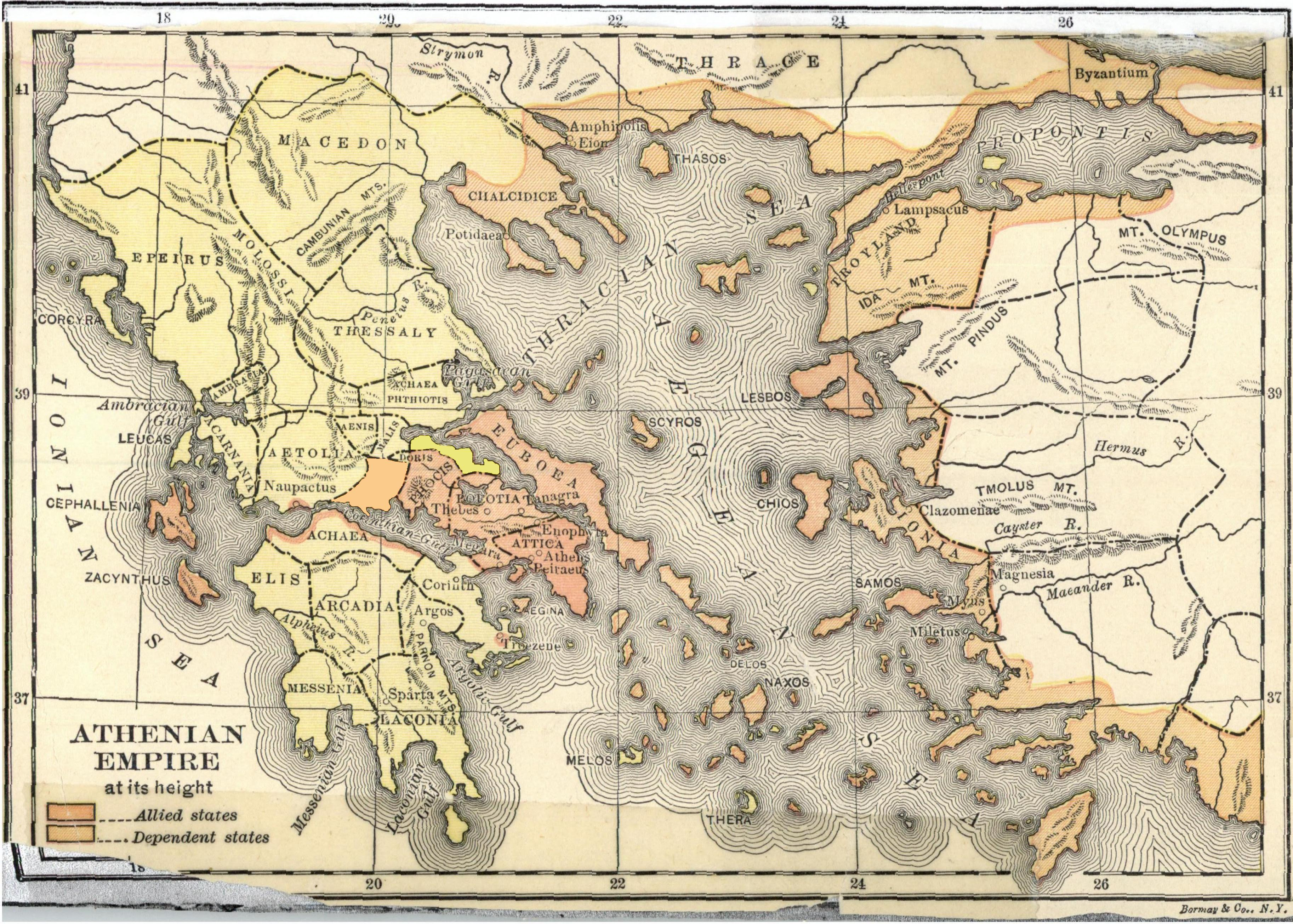 Location of Opuntian Locris and Ozolian Locris. Opuntian Locris Ozolian Locris Identifier: HistoryOfGreeceForHighSchoolsAndAcademies Title: History of Greece for High Schools and Academies Year: 1899 (1890s) Authors: Botsford, George Willis, 1862-1917 Subjects: Greece -- History Publisher: New York : Macmillan Co. View Book Page: Book Viewer About This Book: Catalog Entry View All Images: All Images From Book Click here to view book online to see this illustration in context in a browseable online version of this book.